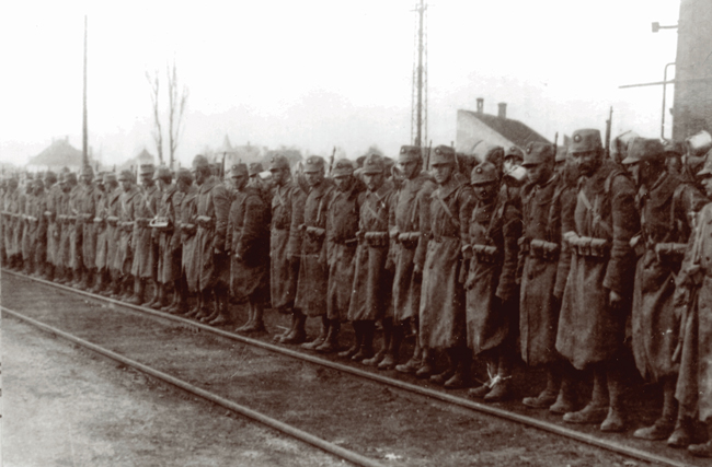 Transylvania, Banat and Bukovina volunteers of Romanian Legion in Italy, arrived in the country (Sibiu, 1919)